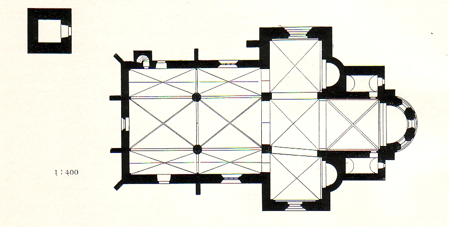 Church in town of Enger, District of Herford, North Rhine-Westphalia, Germany.